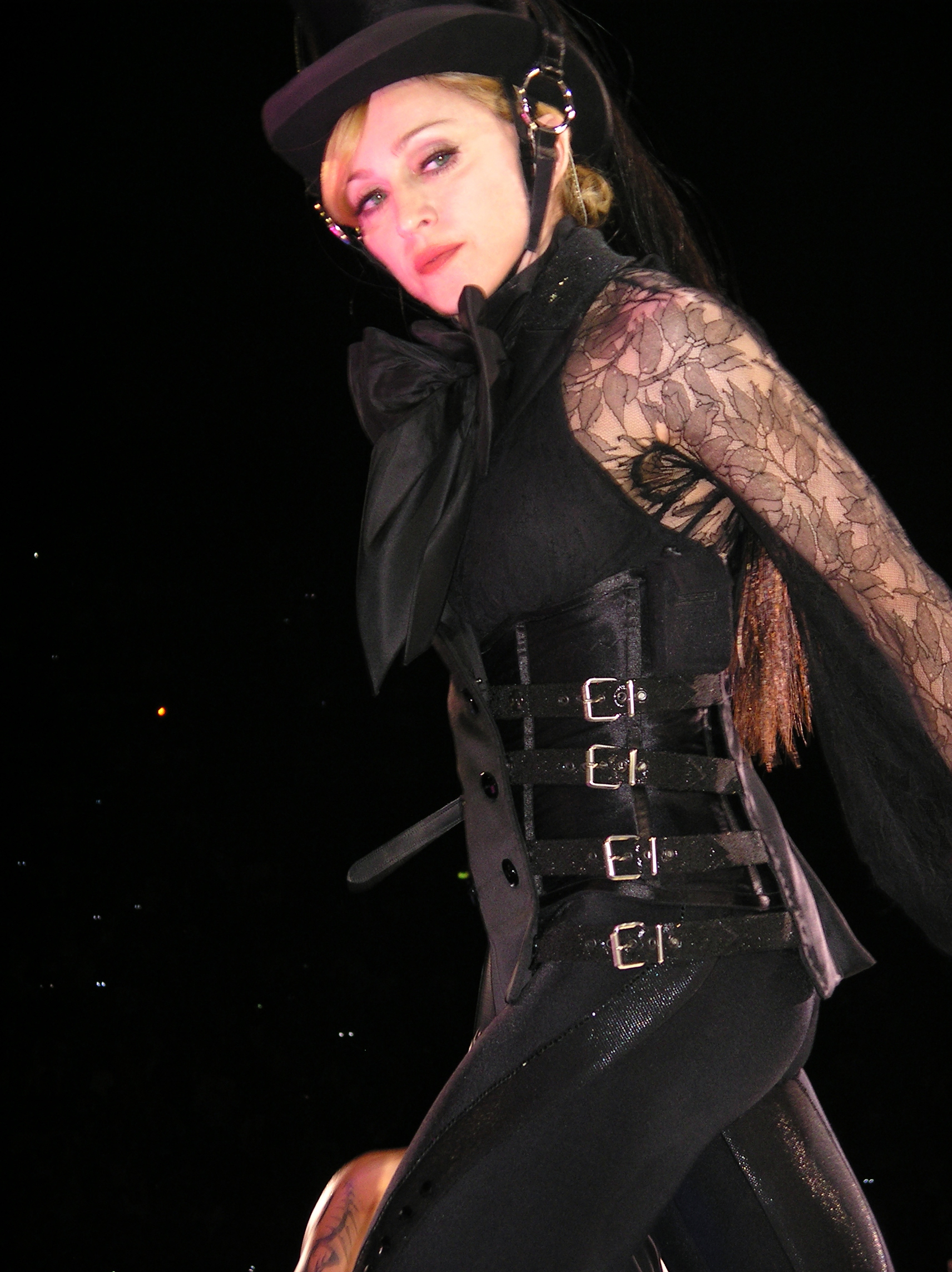 Madonna during her concert in Paris, France, as part of her Confessions Tour on August 31, 2006.